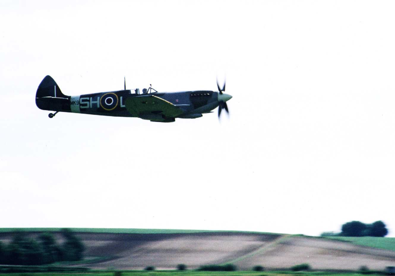 Duxford, 2001. High-speed flypast.